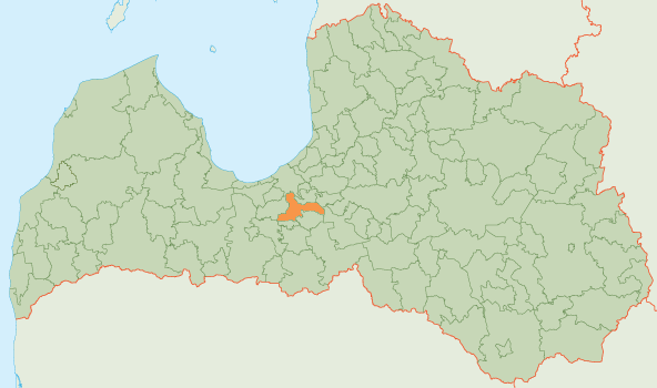 Map of Ķekava municipality, Latvia